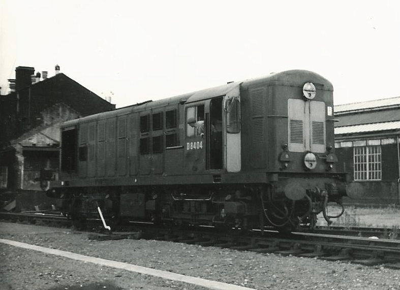 North British Type 1 (later Class 16) of the Pilot Scheme 800hp Bo-Bo No.D8404 in green livery with yellow warning square at Stratford MPD, 07/66. Scanned photograph taken with a Kowa SET camera.